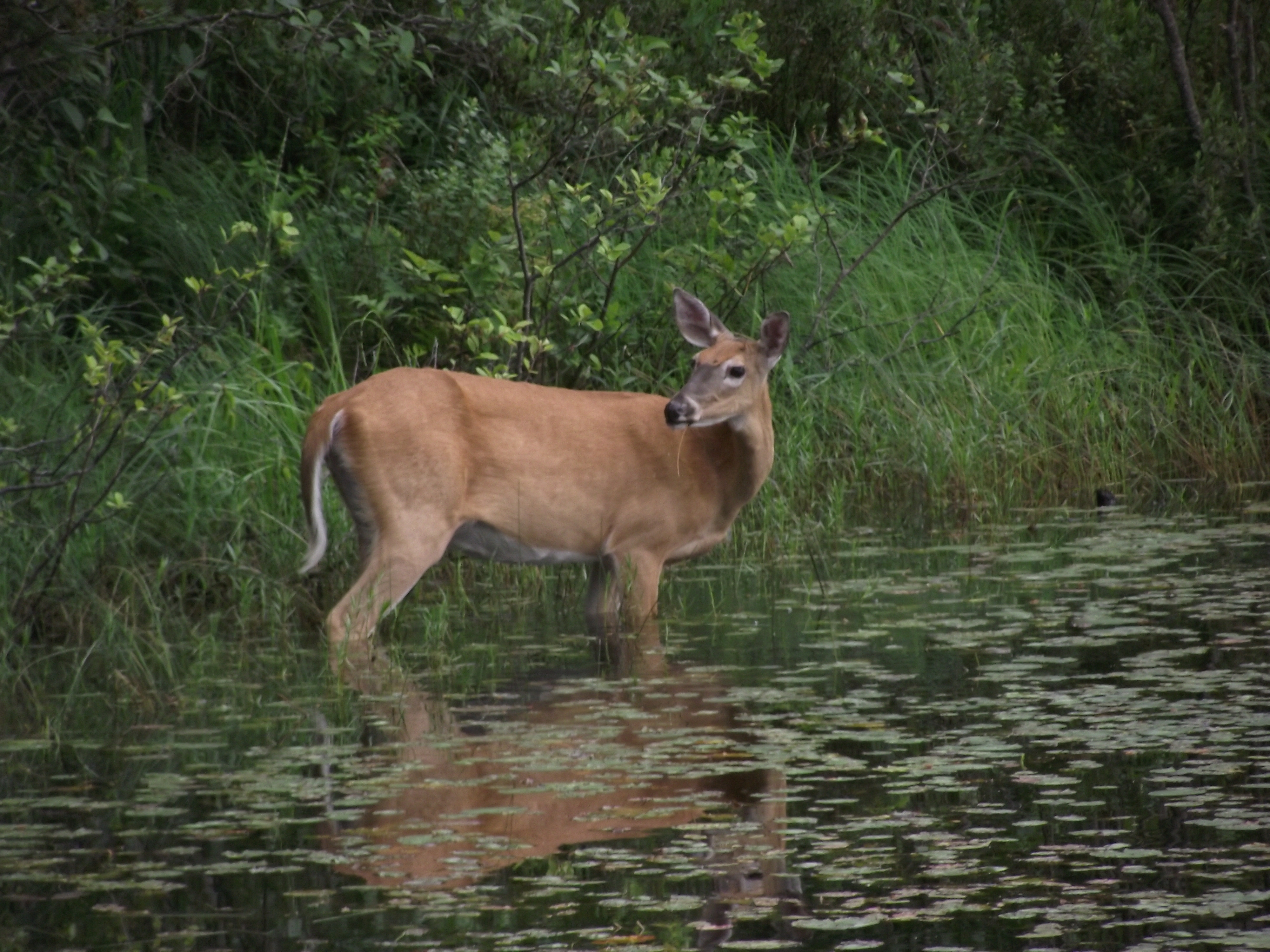 Photo: Dear Reflection (White-tailed Deer). Photo Credit: Tammy Green, 2012 Photo Contest